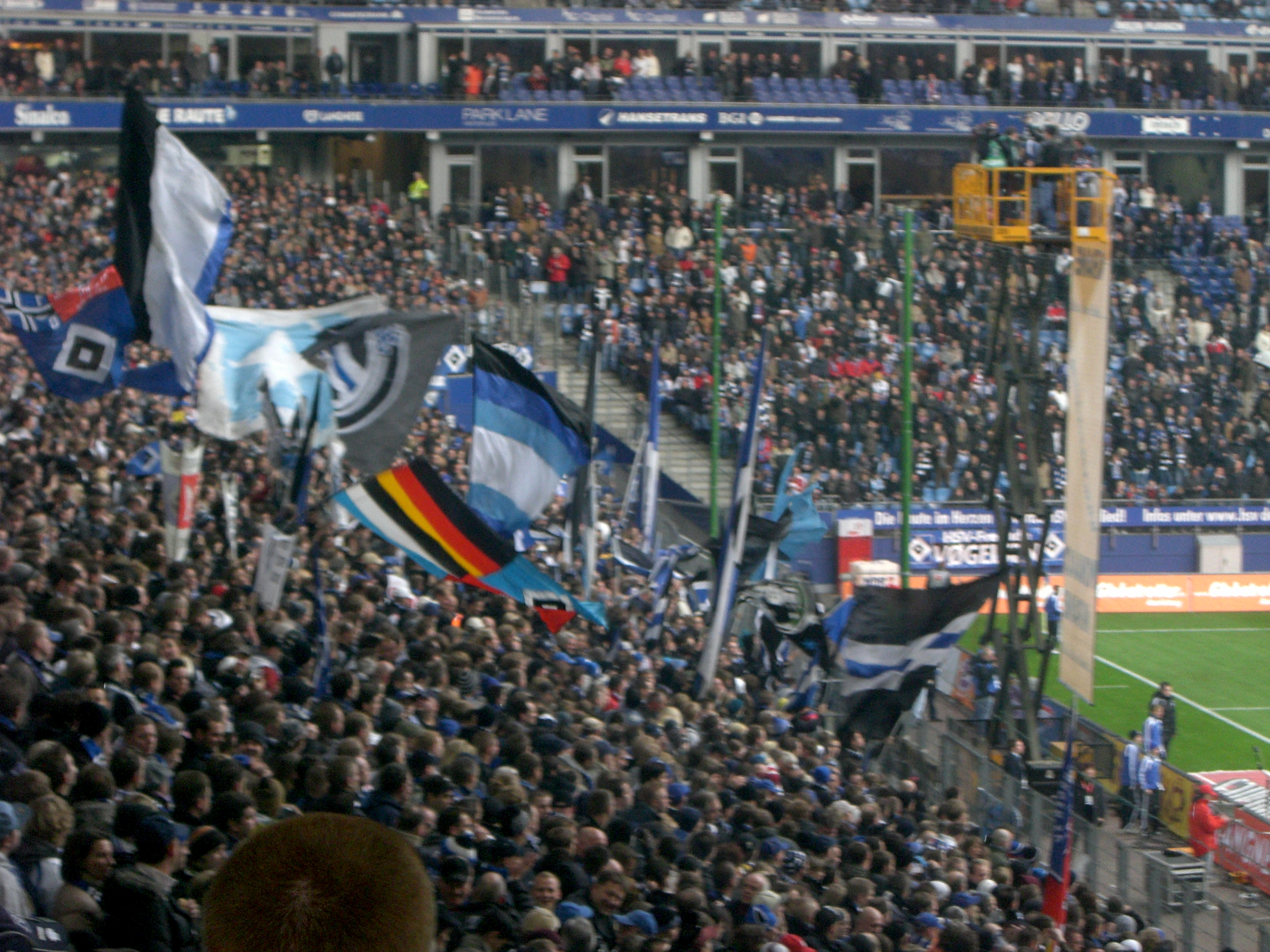 Lotto King Karl and Carsten Pape performing the song "Hamburg, meine Perle" in front of the North Stand of the Volksparkstadion (now known as HSH Nordbank Arena; home stadium of Hamburger SV) right before the match versus Borussia Mönchengladbach